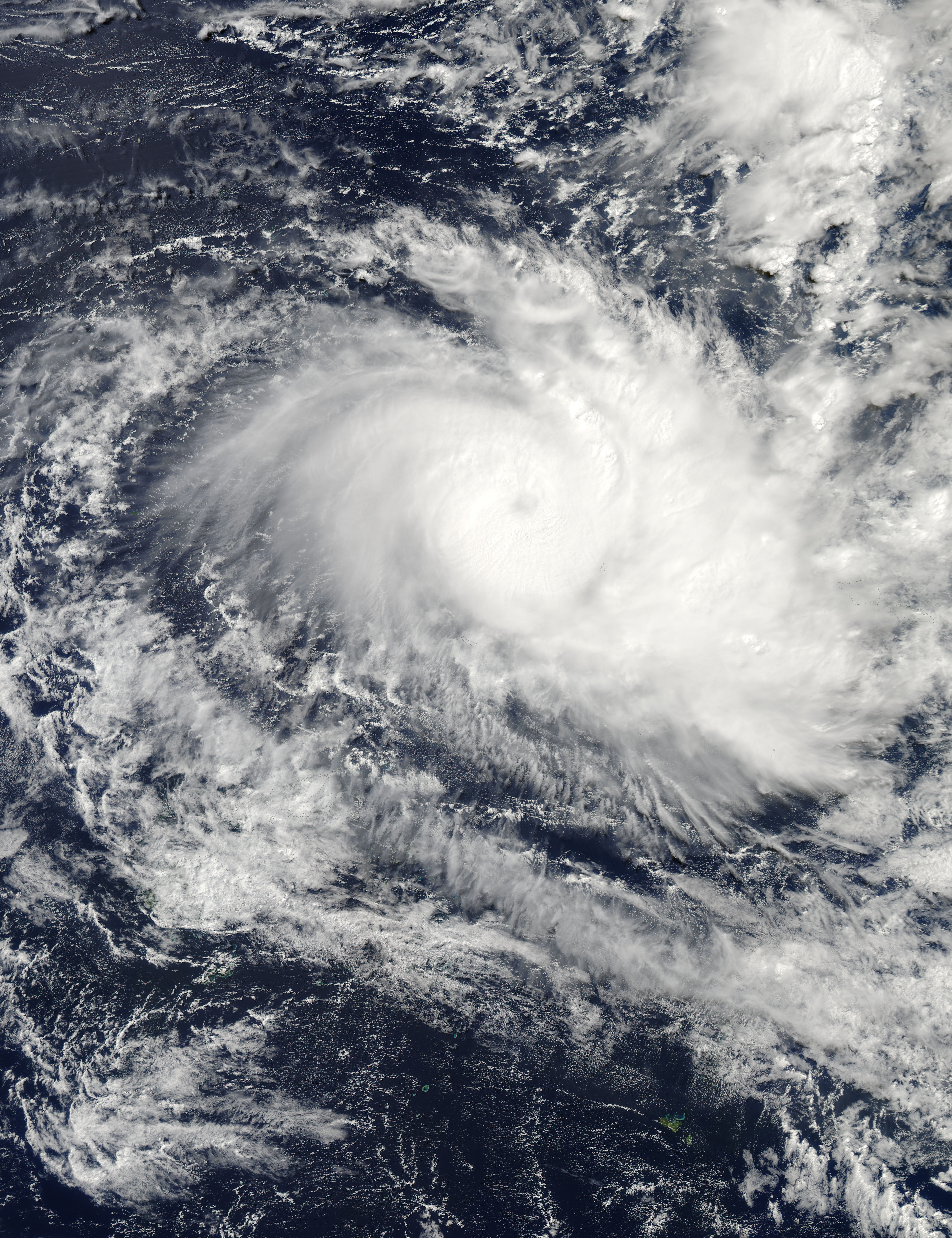 Tropical Cyclone Amos (20P) in the South Pacific Ocean